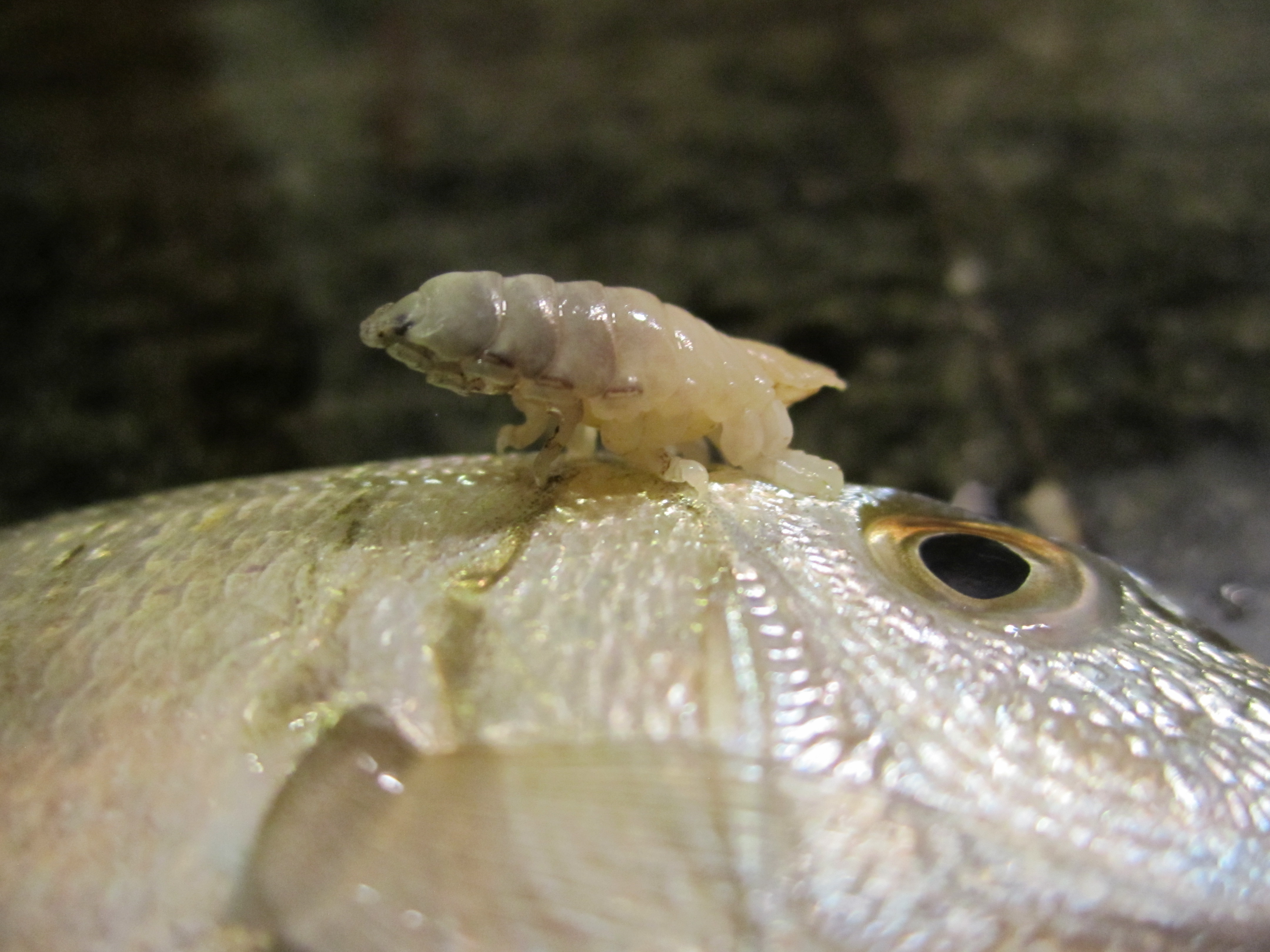 Cymothoa exigua, or the tongue-eating louse, is a parasitic crustacean of the family Cymothoidae. The parasite enters fish (here on the back of a Sand steenbras, Lithognathus mormyrus) through the gills and then attaches itself to the fish's tongue.